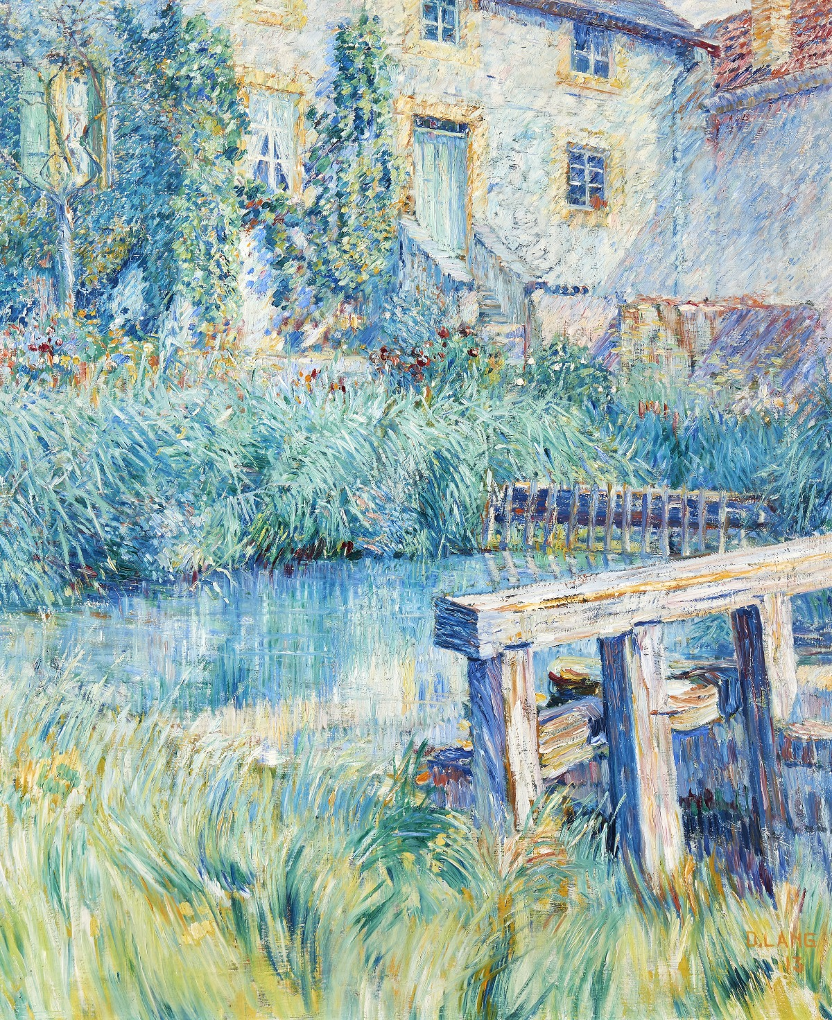 "Le Barrage", painting by Luxembourg Impressionist artist Dominique Lang (1913)